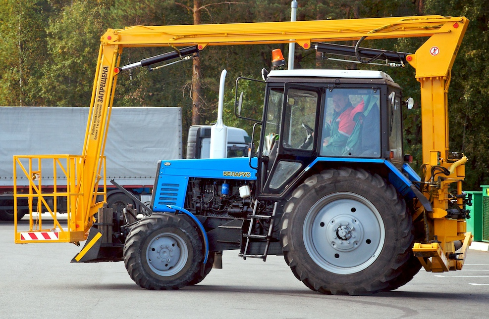 Belarus tractor with crane